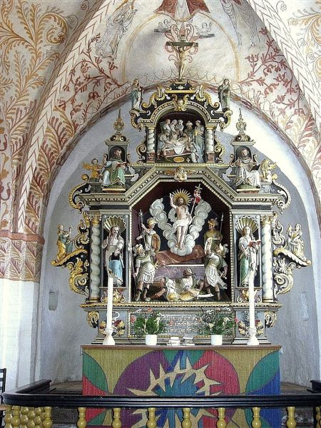 Auning Kirke (church) in Norddjurs Kommune